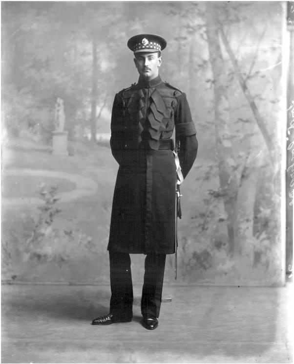 Thomas Hesketh Douglas Blair Cochrane, Baron Cochrane, later 13th Earl of Dundonald (1886-1958)Costume: Undress uniform, Lieutenant, Scots Guards Neg. No: (GP) 6783A